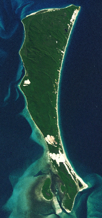 Moreton Island NASA World Wind Landsat montage.